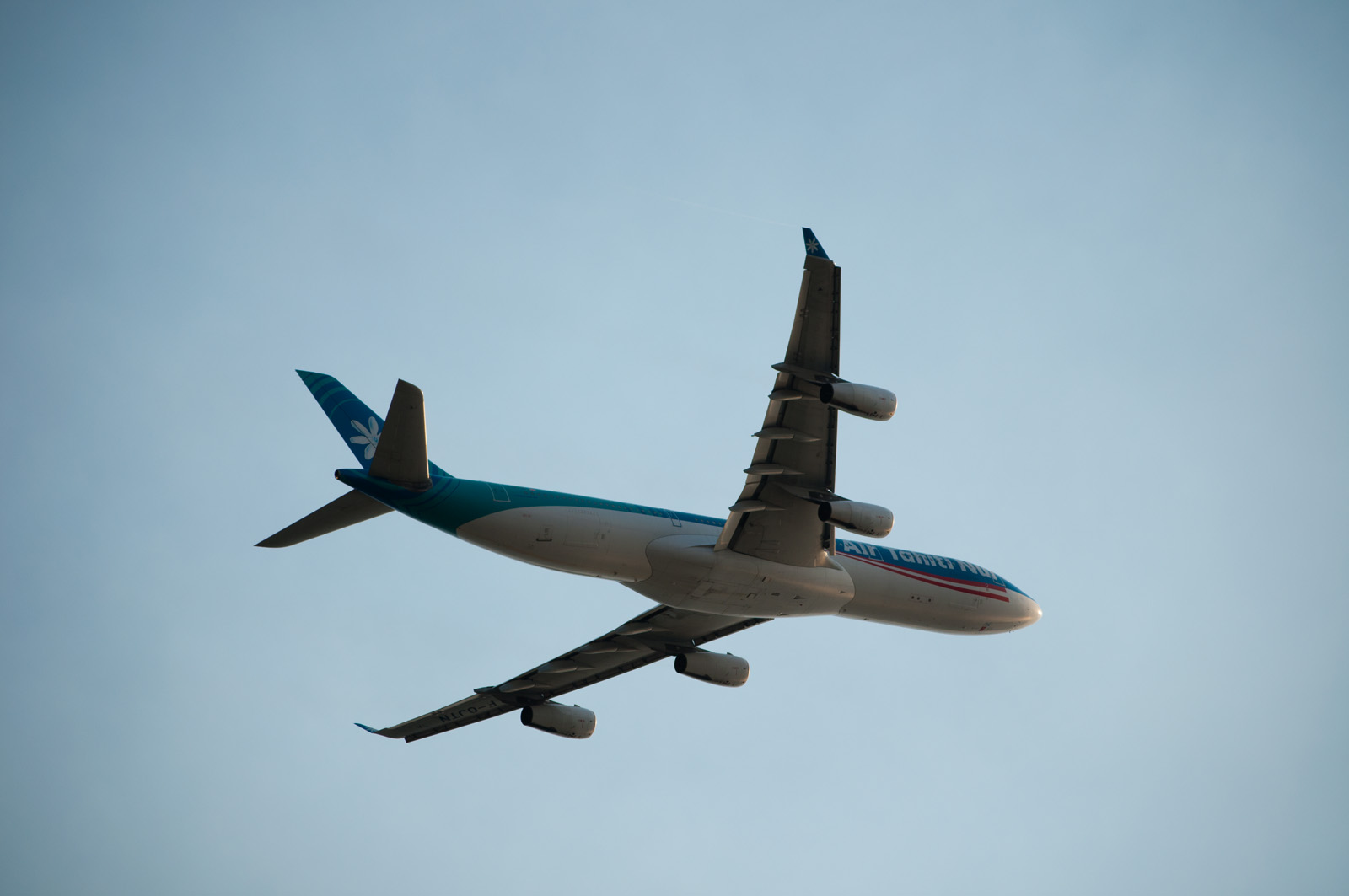 I am at Dockweiler State Beach, at the west end of LAX. I am picnicking with friends and taking lots of photos - and some of them happen to be aviation photos. Air Tahiti Nui is a frequent sight at LAX, thanks to its Paris service making LAX its technical stop. Air Tahiti Nui's Fifth Freedom LAX-CDG service is a cheaper alternative to Air France. For that matter, Air France's own Tahiti service stops at LAX. F-OJTN "Bora Bora," Airbus A340-300